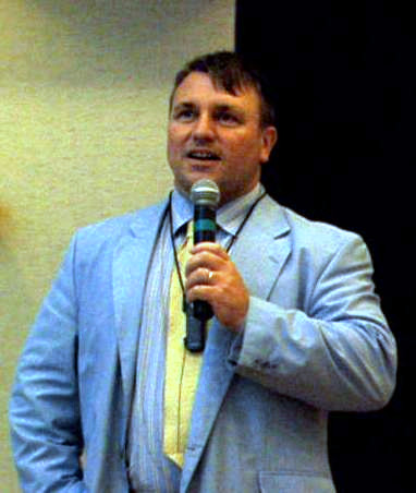 Joseph Pearce speaking into a microphone